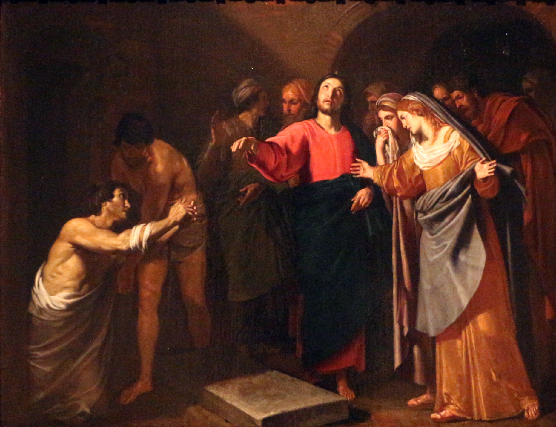 European paintings in the Indianapolis Museum of Art